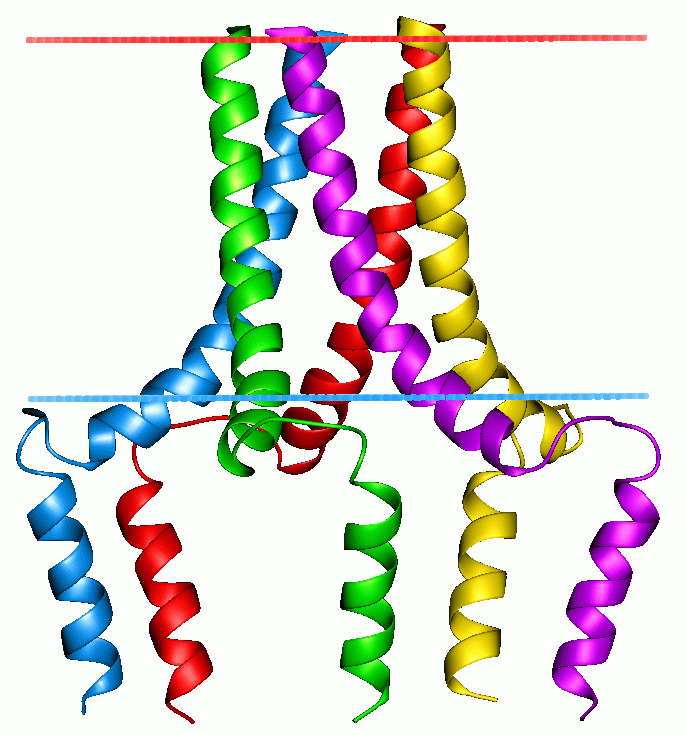 Protein image from OPM database Phospholamban (PLB, PLN)